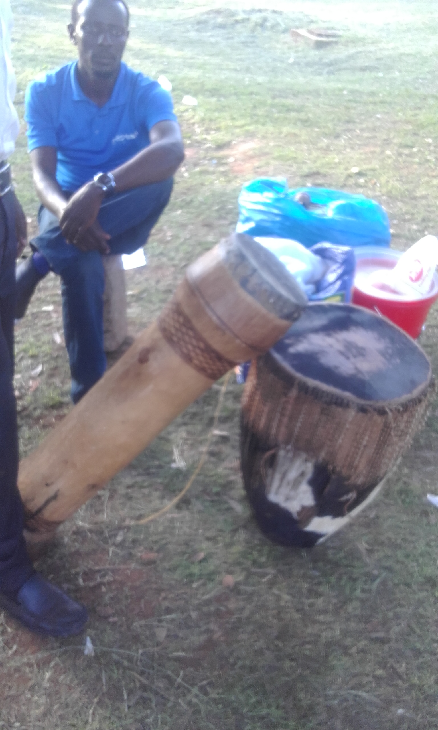 this shows a drum and "engalabi" (local name) the cylindrical drum This is an image from Uganda